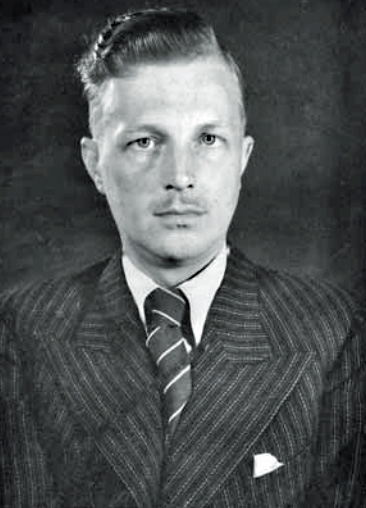 Finnish journalist and composer Antero Vartia (1912–1969)